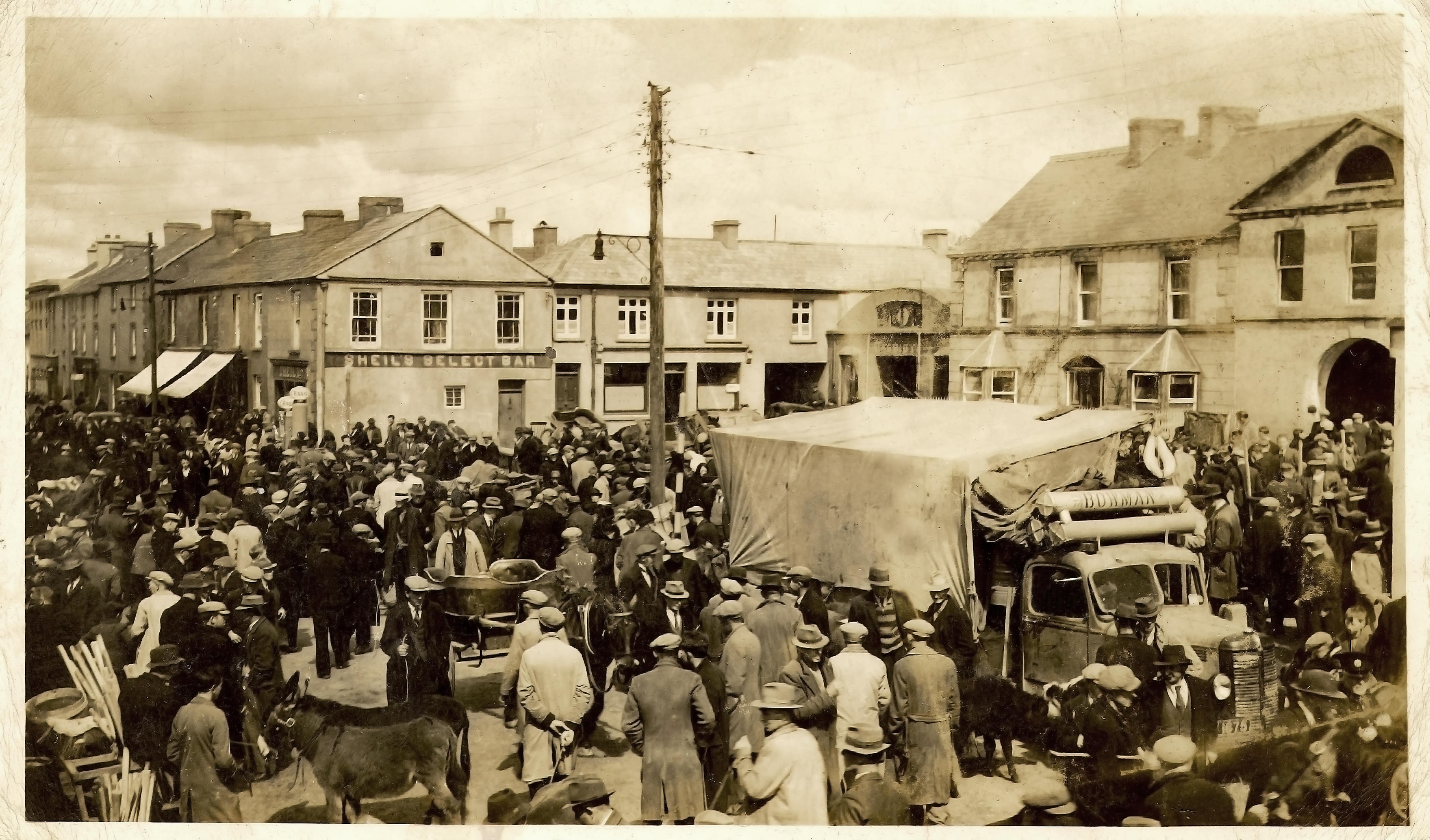 Arvagh market square on fair day.